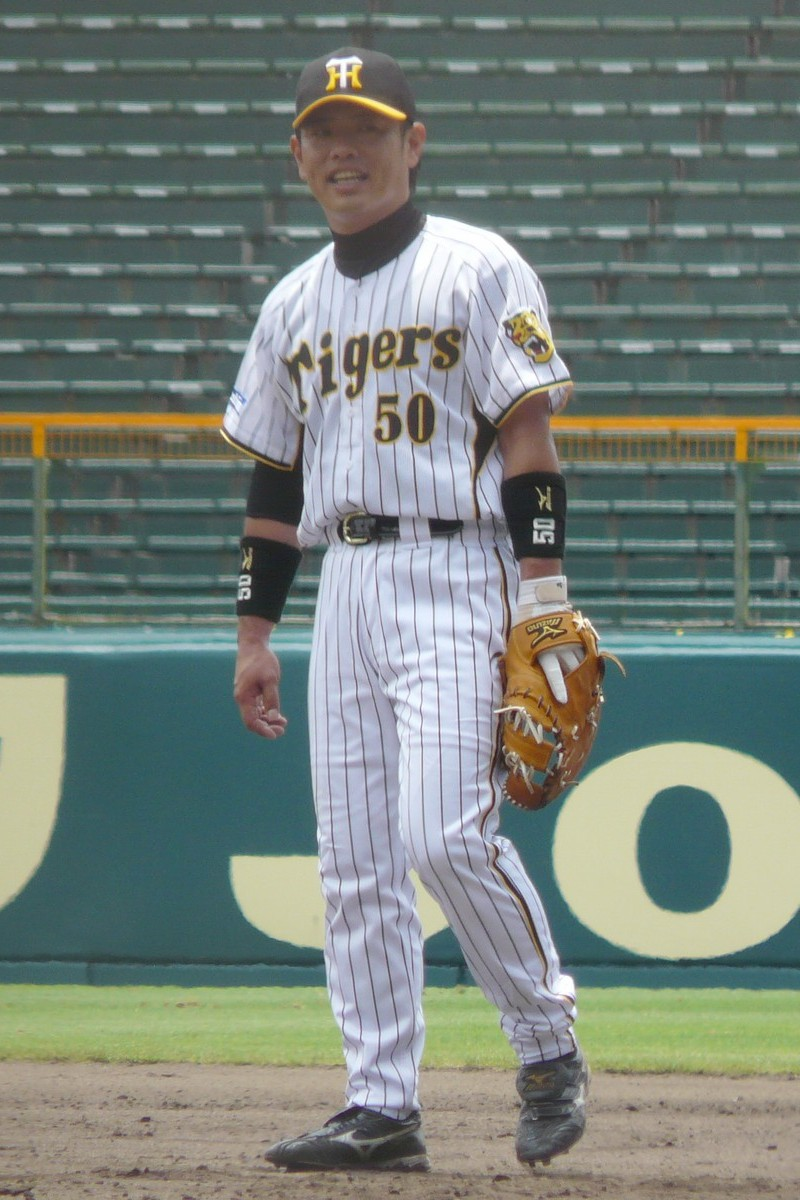 Hanshin Tigers/Mitsunobu Takahashi